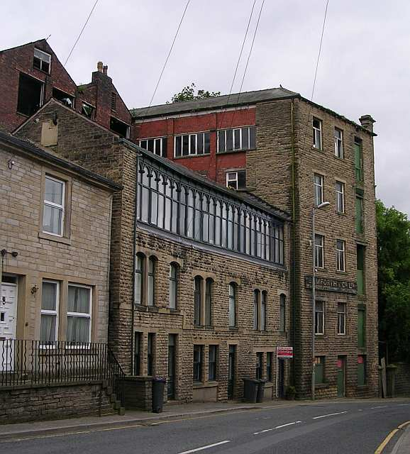 Bamforth & Co Ltd - Station Road This firm of illustrators and publishers was established by James Bamforth in 1870. Perhaps one of its most famous lines was the comic postcard.